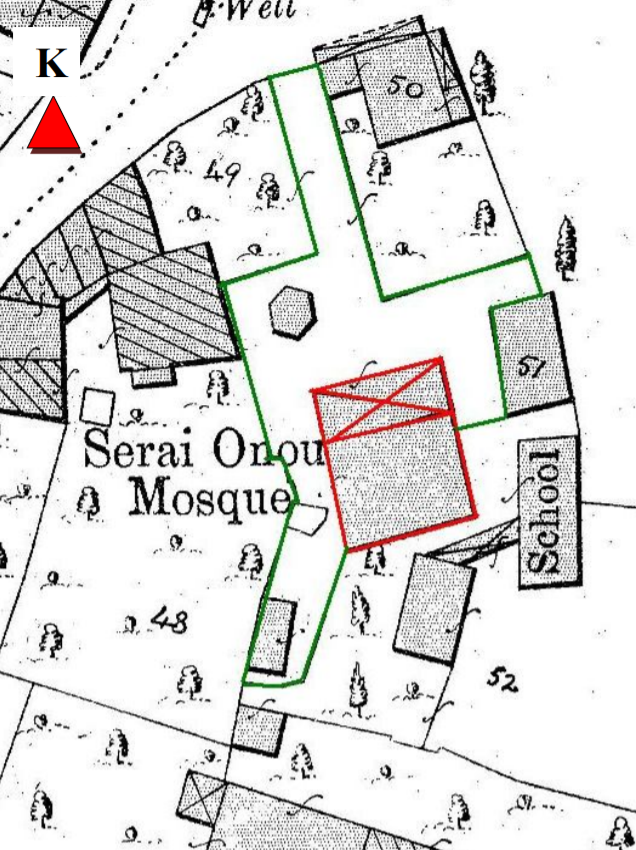 Map of Sarayönü Mosque and School in 1912, drawn by the British authorities